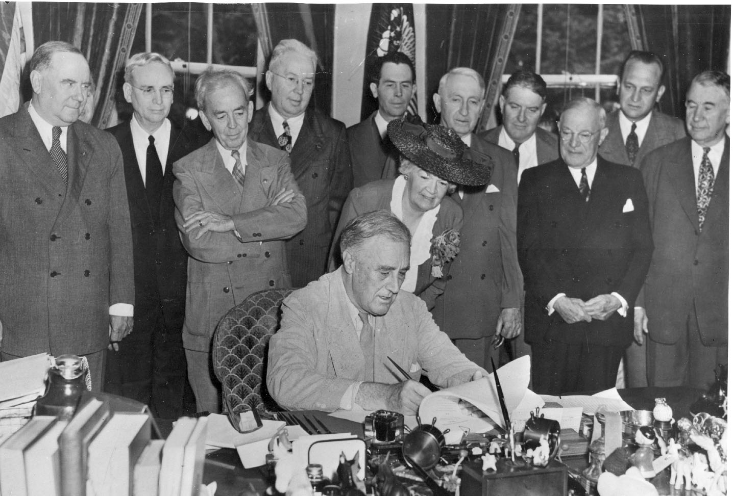 President Franklin D. Roosevelt signs the G.I. Bill in the Oval Office, with (l to r) Bennett “Champ” Clark, J. Hardin Peterson, John Rankin, Paul Cunningham, Edith N. Rogers, J.M. Sullivan, Walter George, John Stelle, Robert Wagner, Scott W. Lucas, and Alben Barkley; June 22, 1944